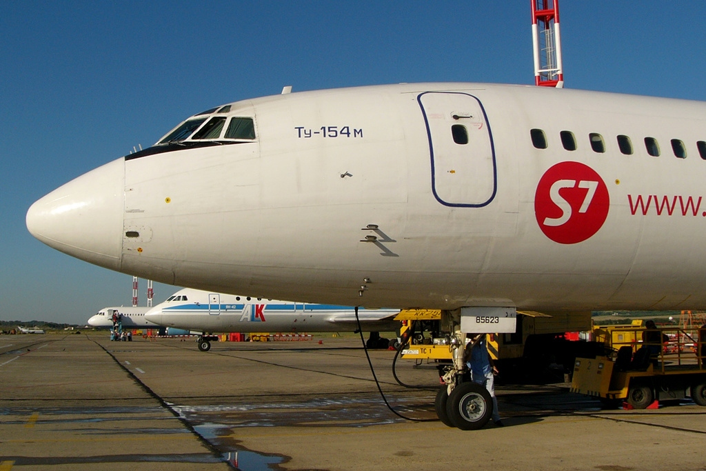 Just arrived from Moscow. Yak-42 and Tu-204 behind.